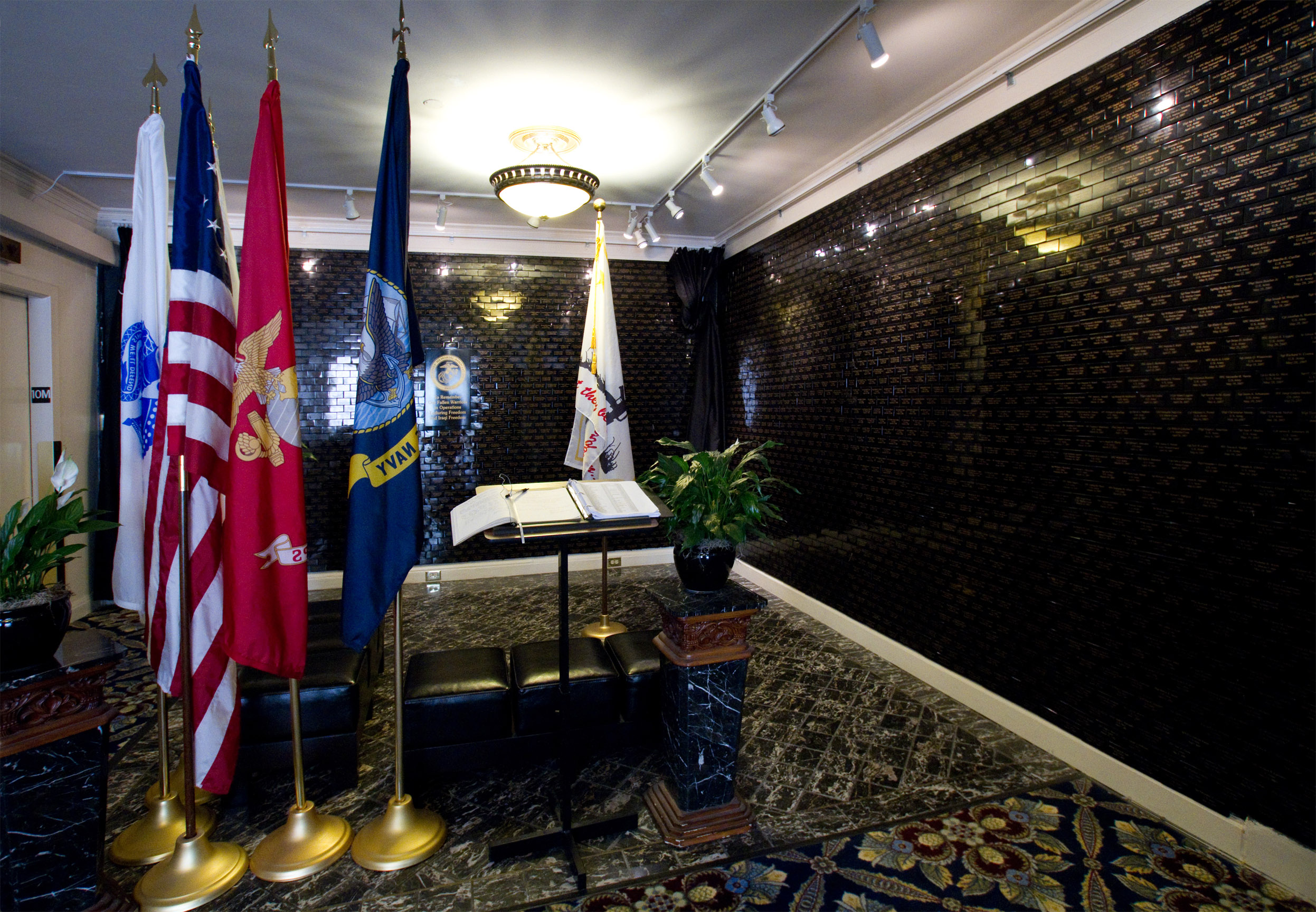 A view of the Tribute Wall at the Marines' Memorial Club